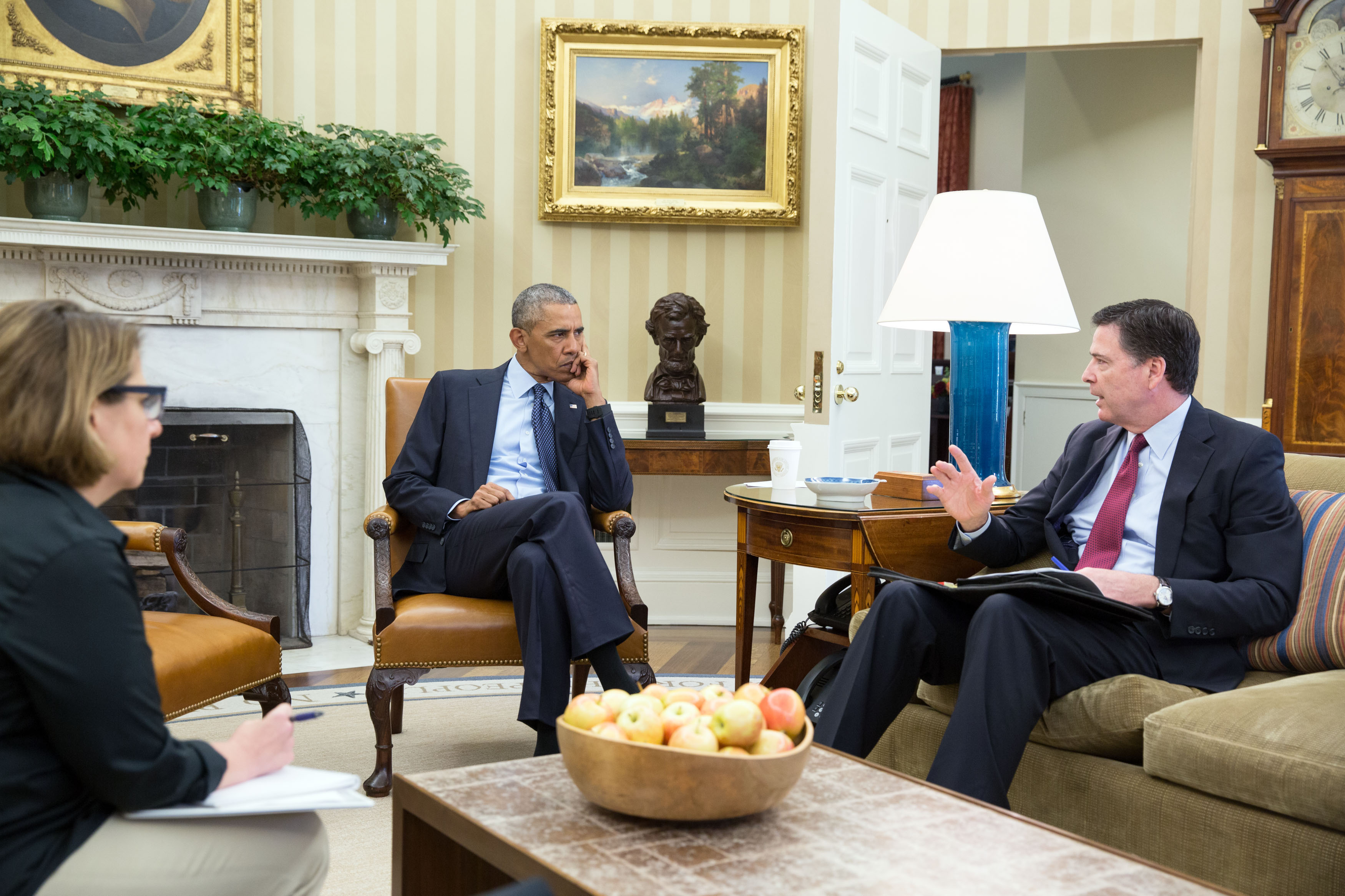 President Barack Obama receives an update in the Oval Office from FBI Director James Comey and Homeland Security Advisor Lisa Monaco on the mass shooting in Orlando, Fla., June 12, 2016. Also attending the meeting were Chief of Staff Denis McDonough, National Security Advisor Susan E. Rice and Deputy National Security Advisor Ben Rhodes. (Official White House Photo by Pete Souza)